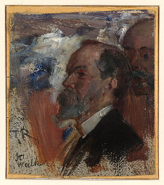 Sketch of Australian senator James Thomas Walker for Roberts' work The opening of the first Parliament of the Commonwealth, 9th May 1901